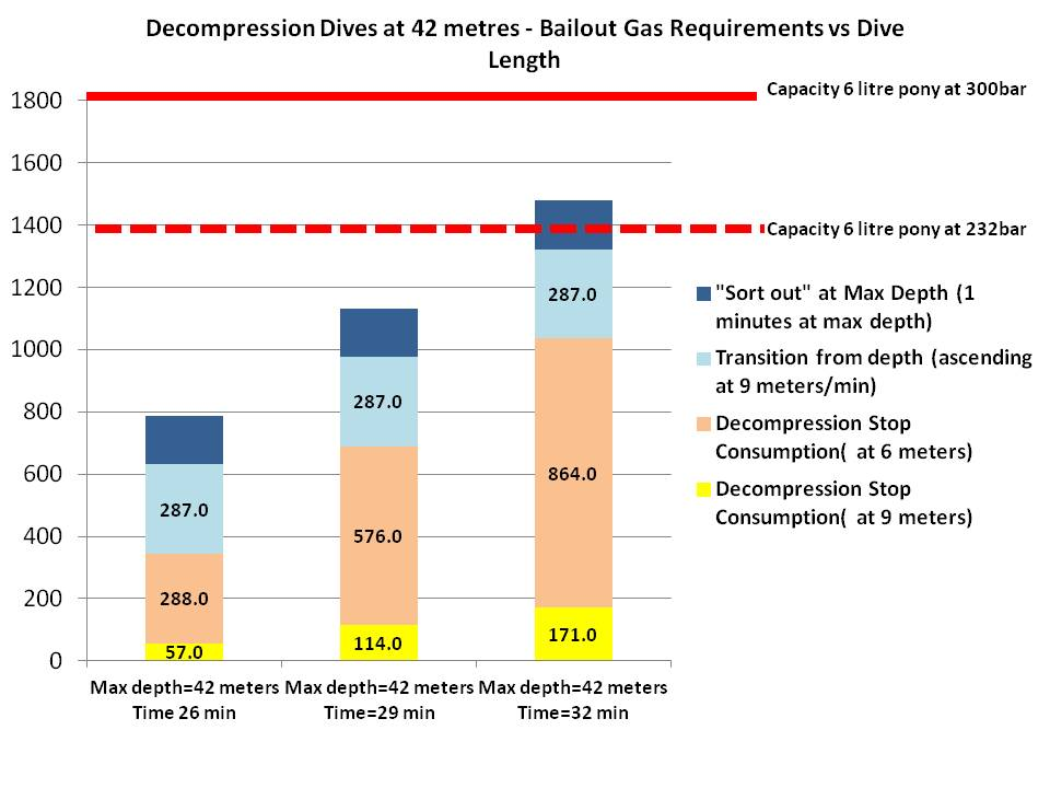 chart showing air consumption in decompression dive for selecting pony bottle